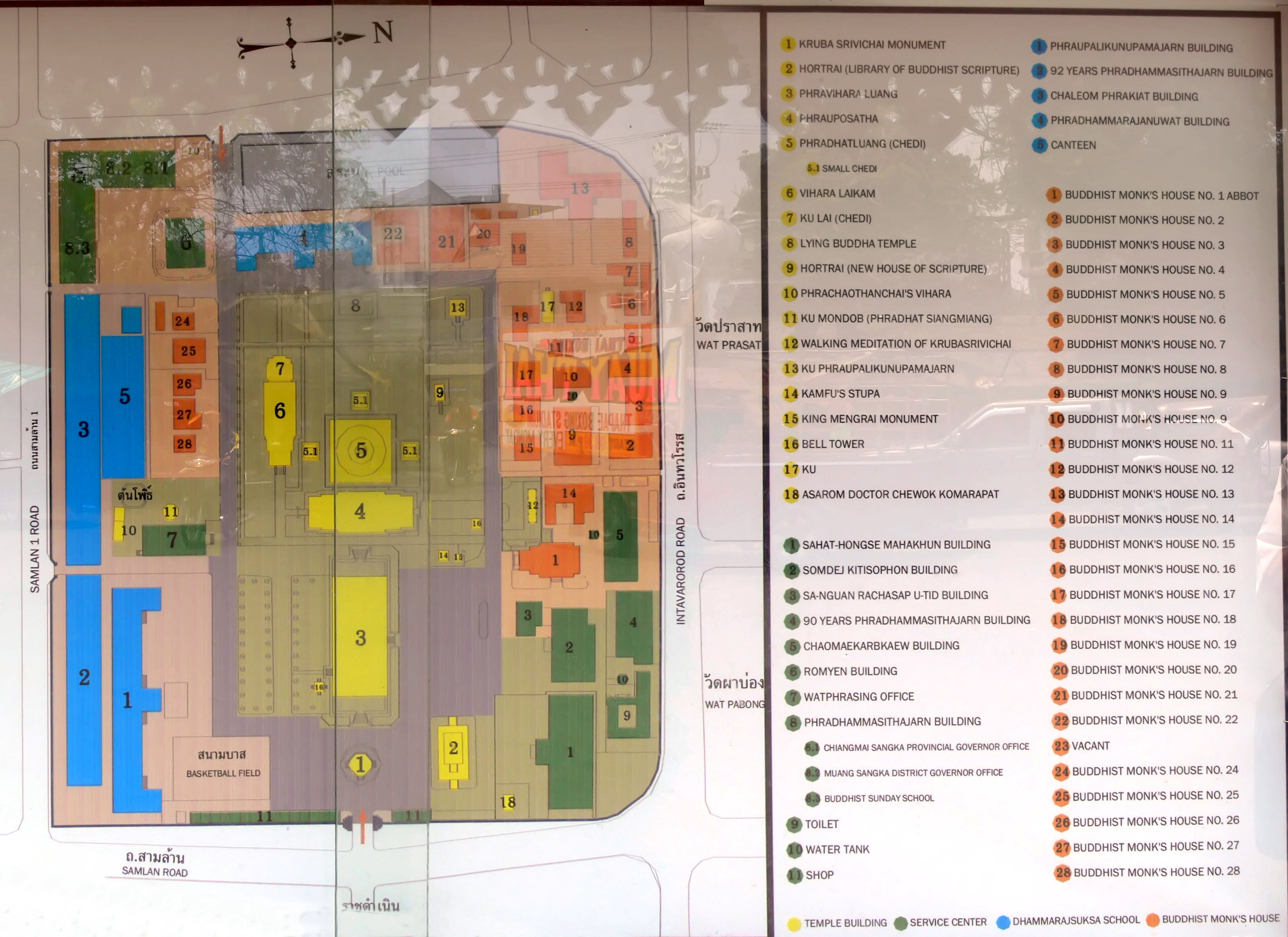 Detailed map of Wat Phra Singh